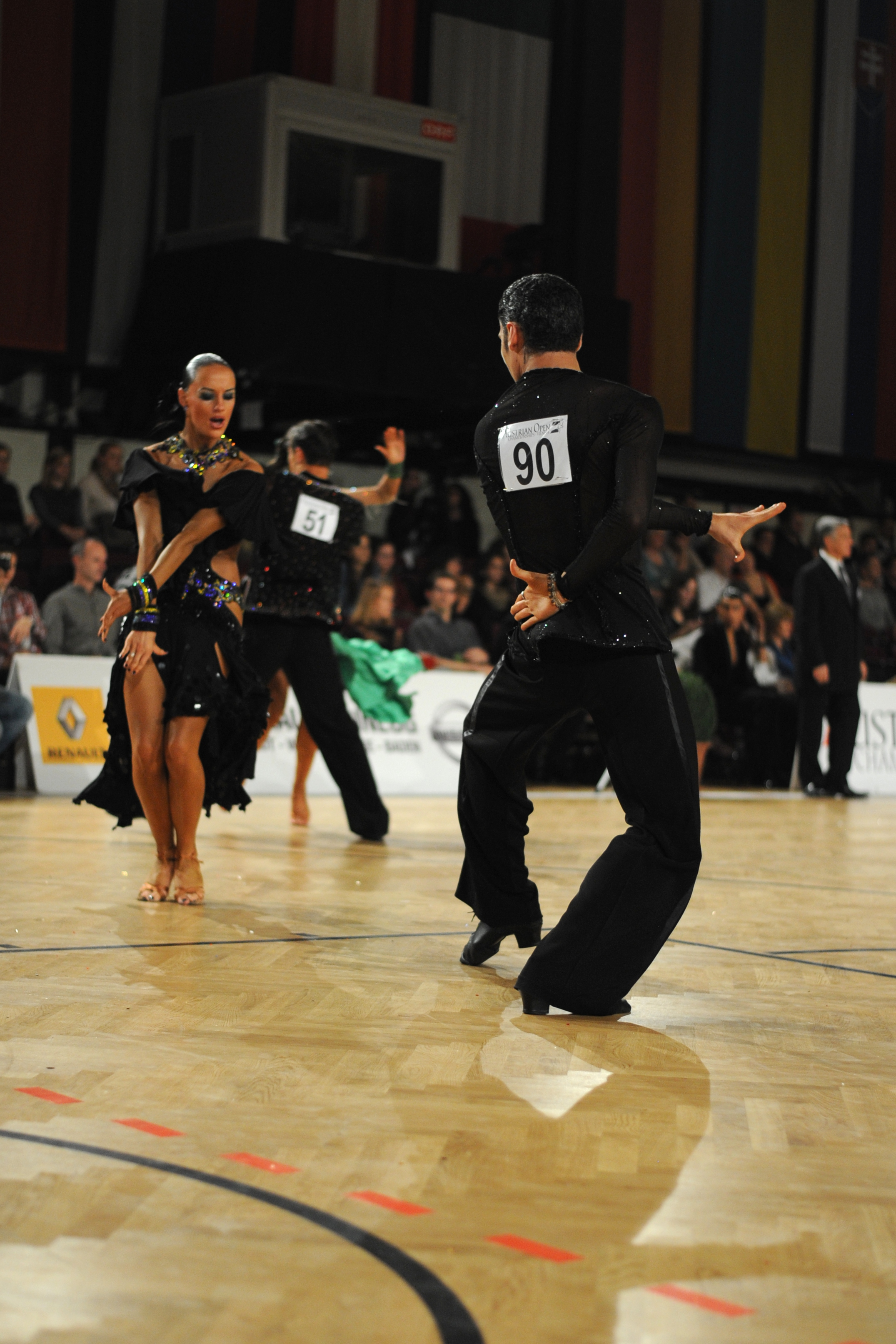 Austrian Open Championships Vienna, 2012 WDSF World Dancesport Championships Latin 16.-18. November 2012 The making of this work was supported by Wikimedia Austria. For other files made with the support of Wikimedia Austria, please see the category Supported by Wikimedia Österreich. Personality rights warning Although this work is freely licensed or in the public domain, the person(s) shown may have rights that legally restrict certain re-uses unless those depicted consent to such uses. In these cases, a model release or other evidence of consent could protect you from infringement claims.